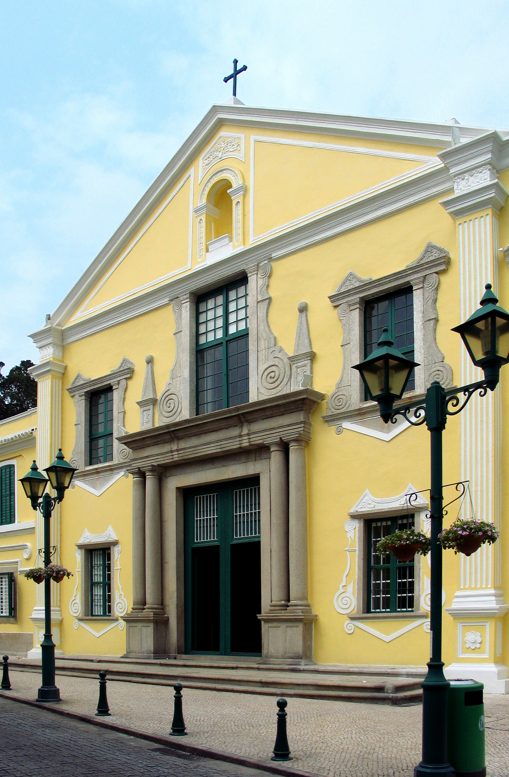 Igreja de Sao Agostinho in Macao 崗頂聖堂 Source: taken by Glio, using Canon Powershot G5